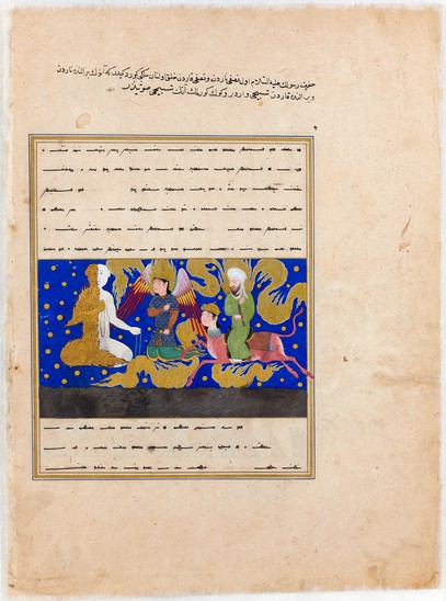 A copy of al-Sarai’s Nahj al-Faradis, the Islamic prophet Muhammad Encounters the angel composed of ice and fire during his Night-Journey.